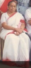 Honorable Justice Janaki Amma